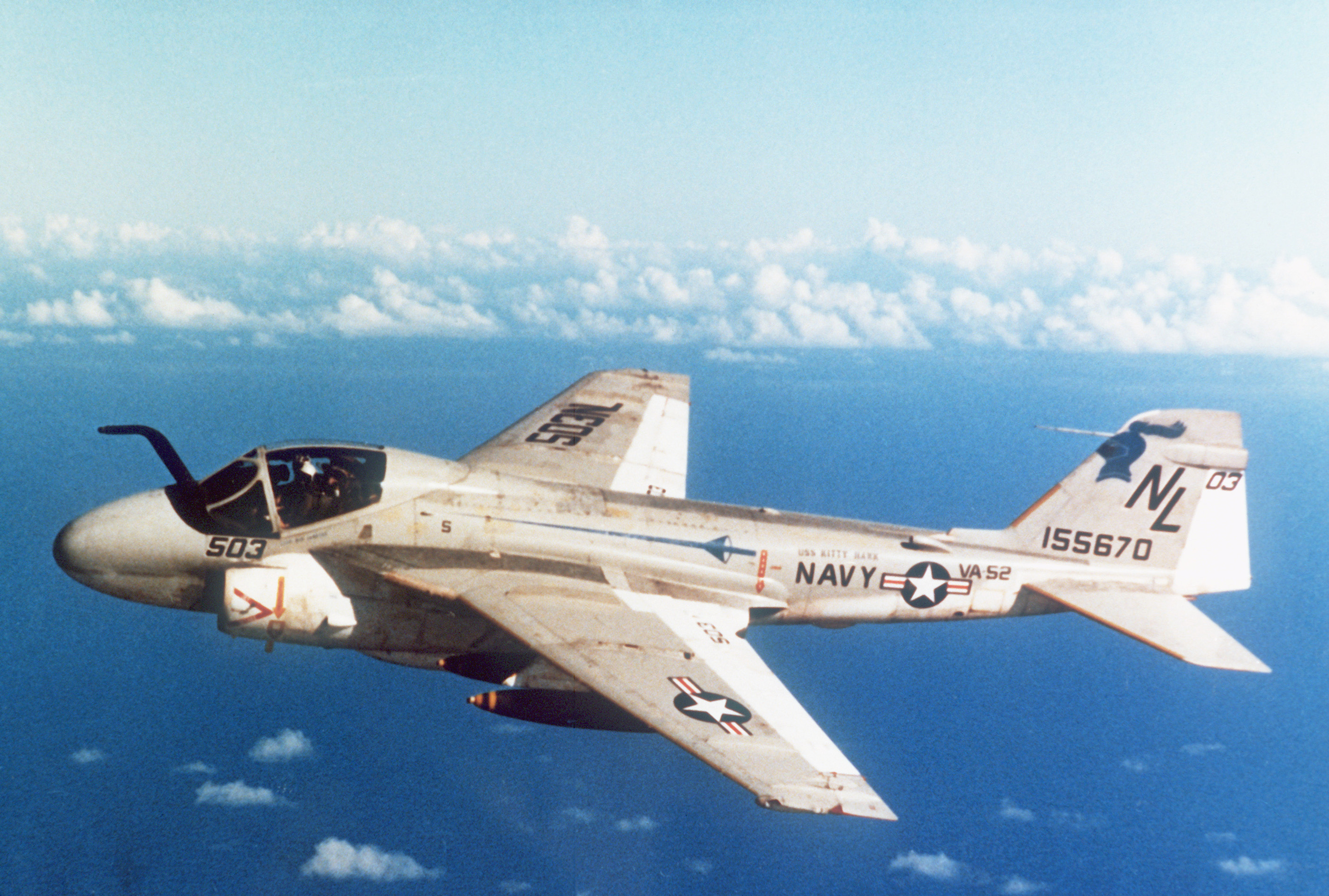 A U.S. Navy Grumman A-6E Intruder (BuNo 155670) aircraft from Attack Squadron 52 (VA-52) "Knightriders" in flight in 1981. VA-52 was assigned to Carrier Air Wing 15 (CVW-15) aboard the aircraft carrier USS Kitty Hawk (CV-63) from 1 April to 23 November 1981 for a deployment to the Western Pacific. Note: The date given (15 January 1984) has to be incorrect, as BuNo 155670 was assigned to VA-52 for the 1981 cruise. In 1984 CVW-15 was also assigned to the USS Carl Vinson (CVN-70). 155670 was an A-6A modified to an A-6E. After its retirement it was sunk as an artificial reef.